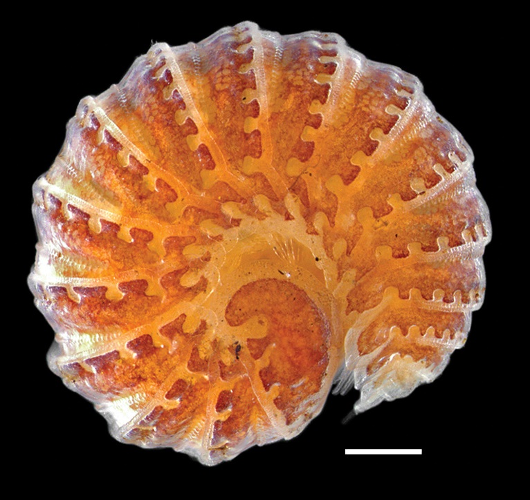 Ammodesmus nimba sp. n., male paratype. habitus, lateral view. Scale bars: 100 µm.